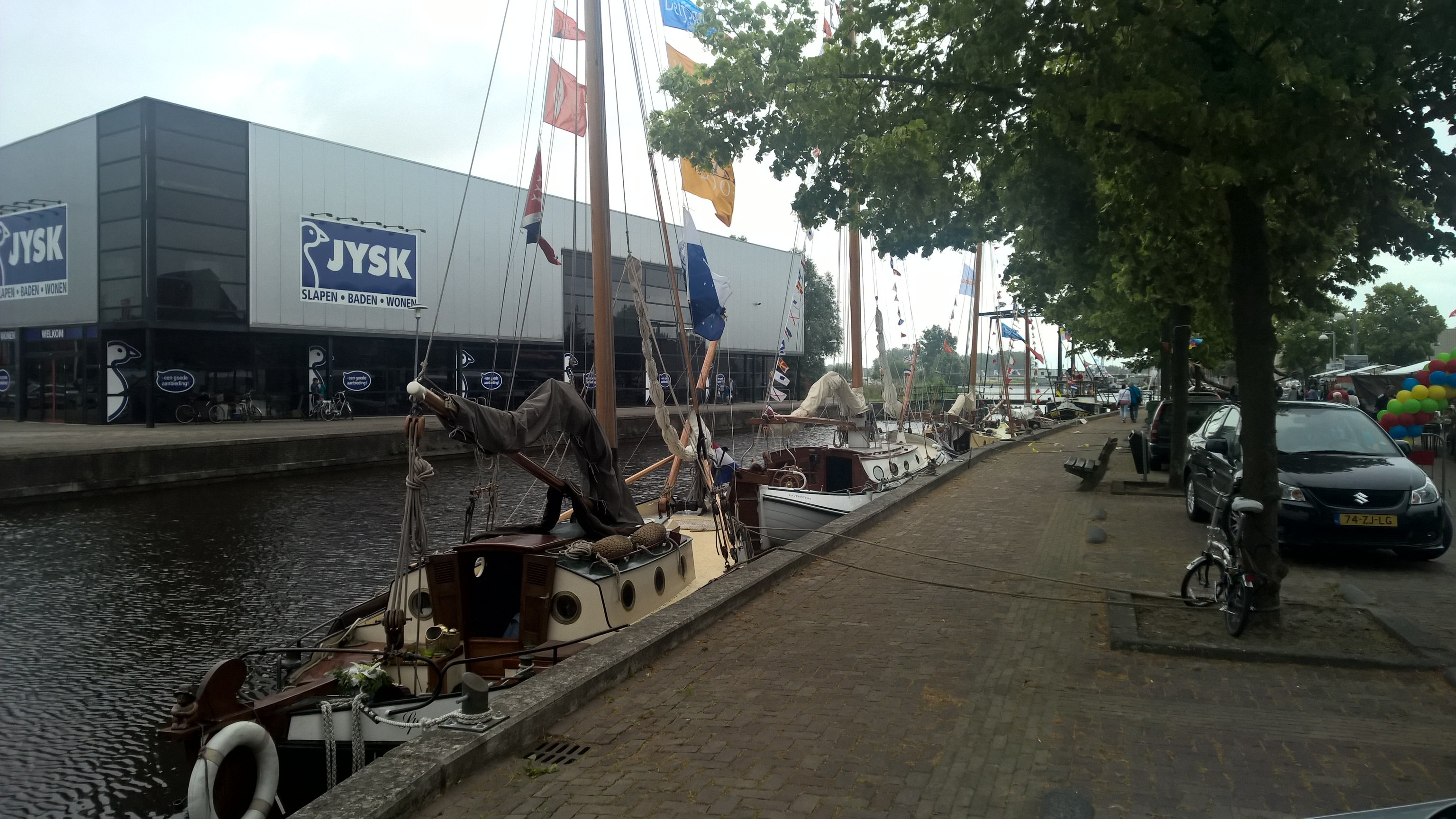 Boats on display at the Sodom Sail in the city of Winschoten, Oldambt. Sodom is a nickname for the city of Winschoten.